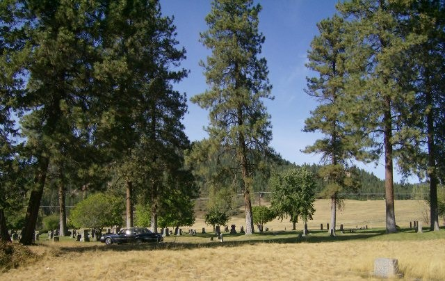 Highland Cemetery in Colville, Stevens County, Washington